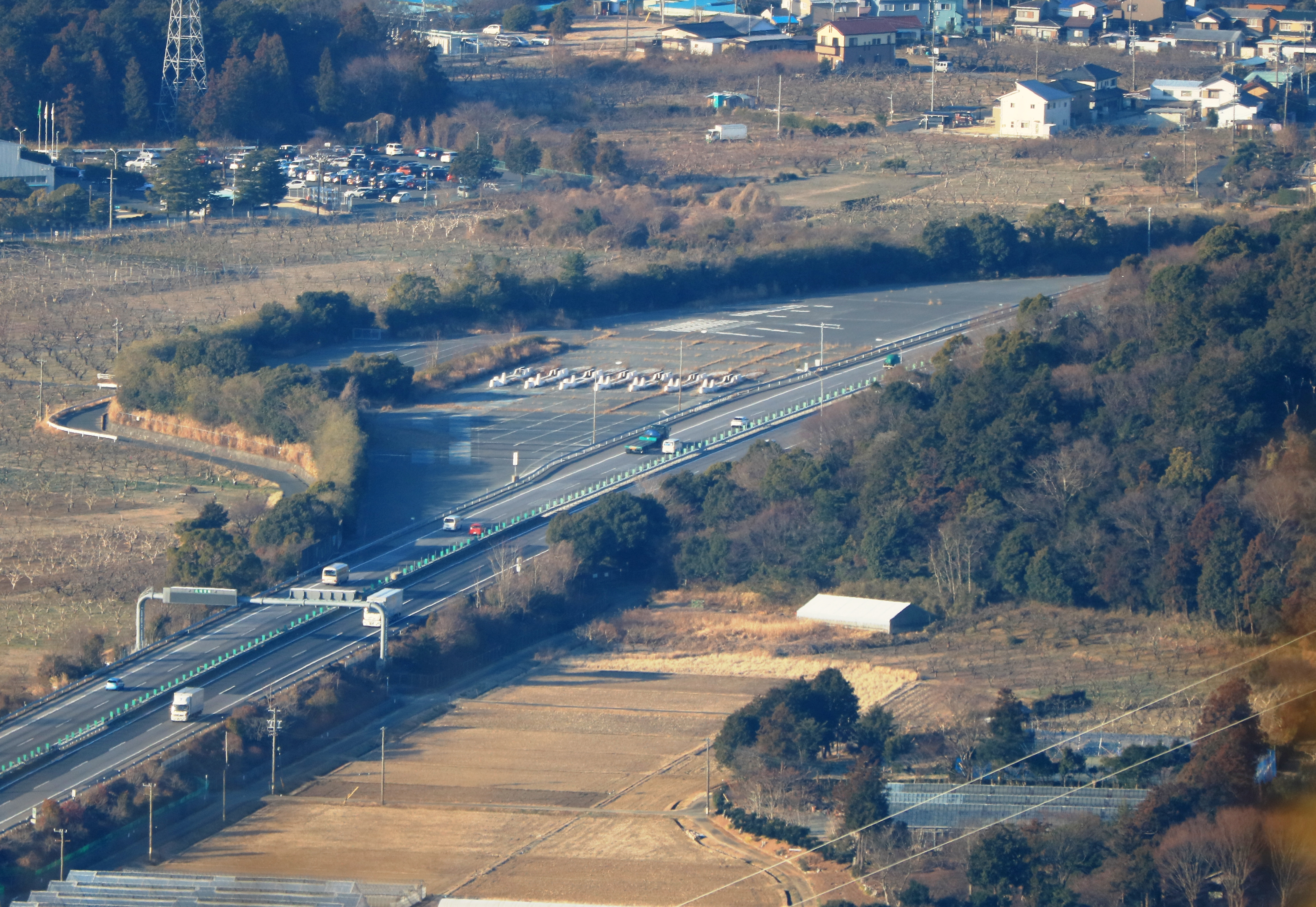 Closed Toyohashi Toll Barrier of Tomei Expressway seen from Mount Kichijo in Toyohashi, Aichi Prefecture, Japan.